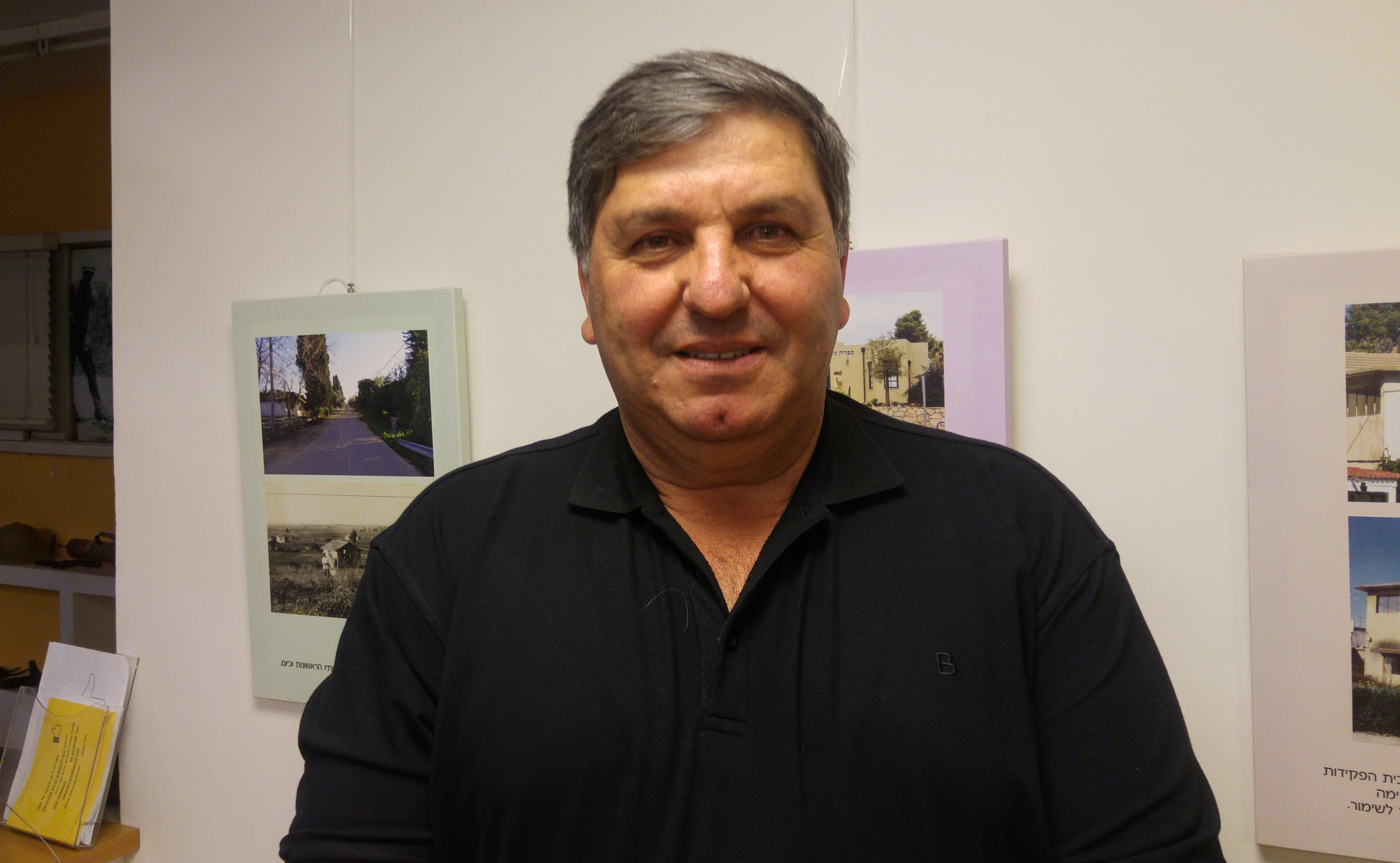 Danny Atar